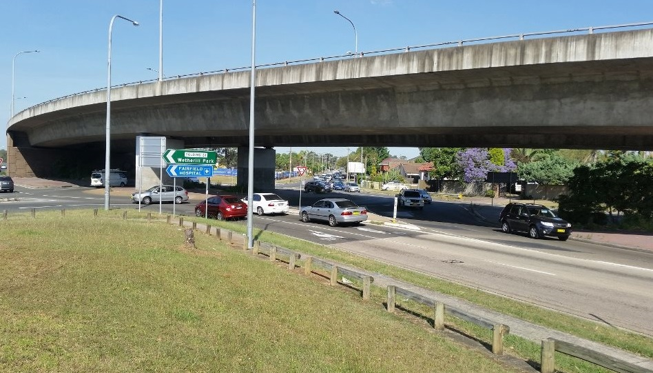 Cumberland Highway flyover Polding Street in Fairfield West, Sydney, NSW